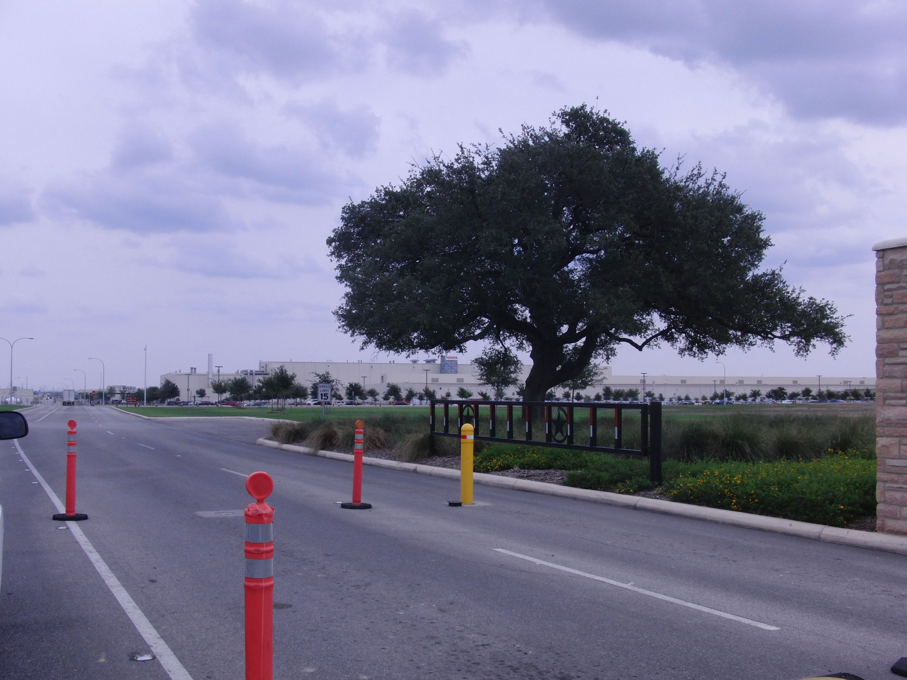 Toyota Truck Manufacturing Facility